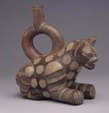 Moche Jaguar. Larco Museum Collection. Lima, Peru. Free Use.